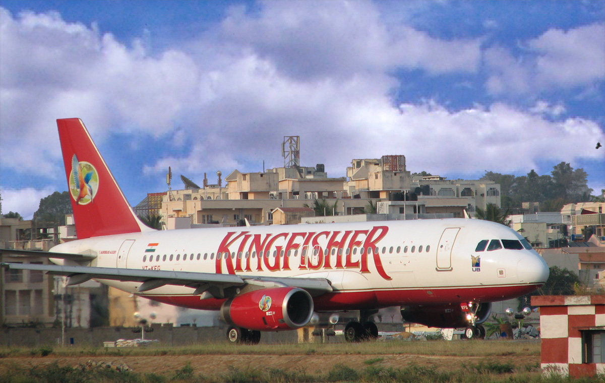 Kingfisher airlines, taxing in Bangalore Airport, India